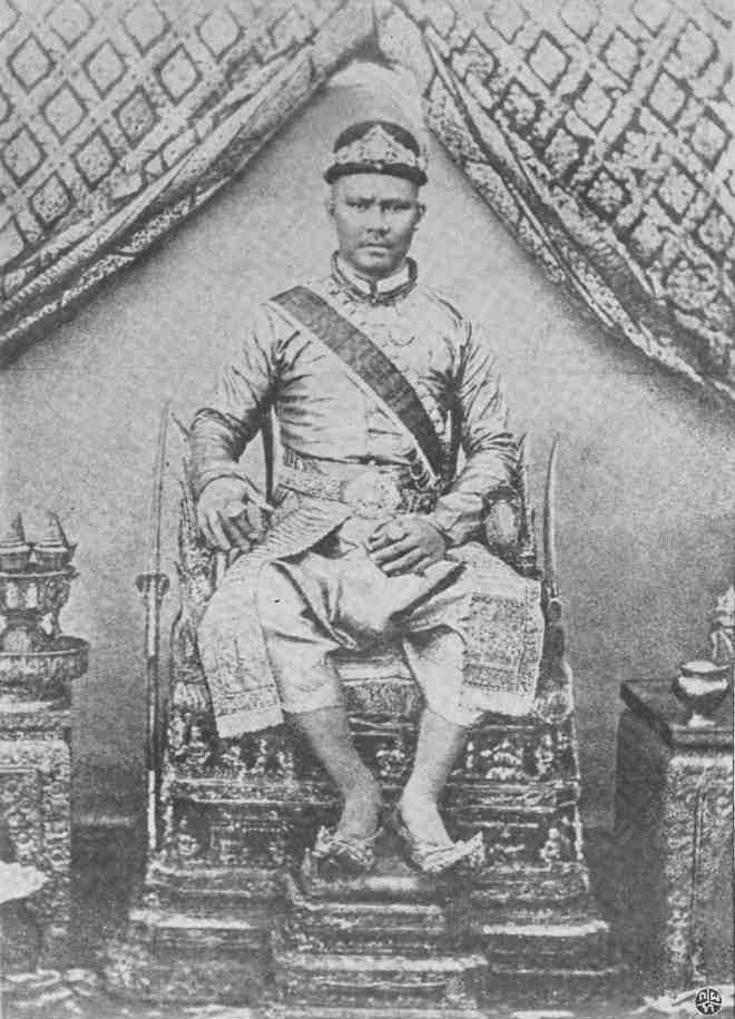 Photograph of Prince Bovorn Vichaichan, son of King Pinklao, Front Palace of Siam